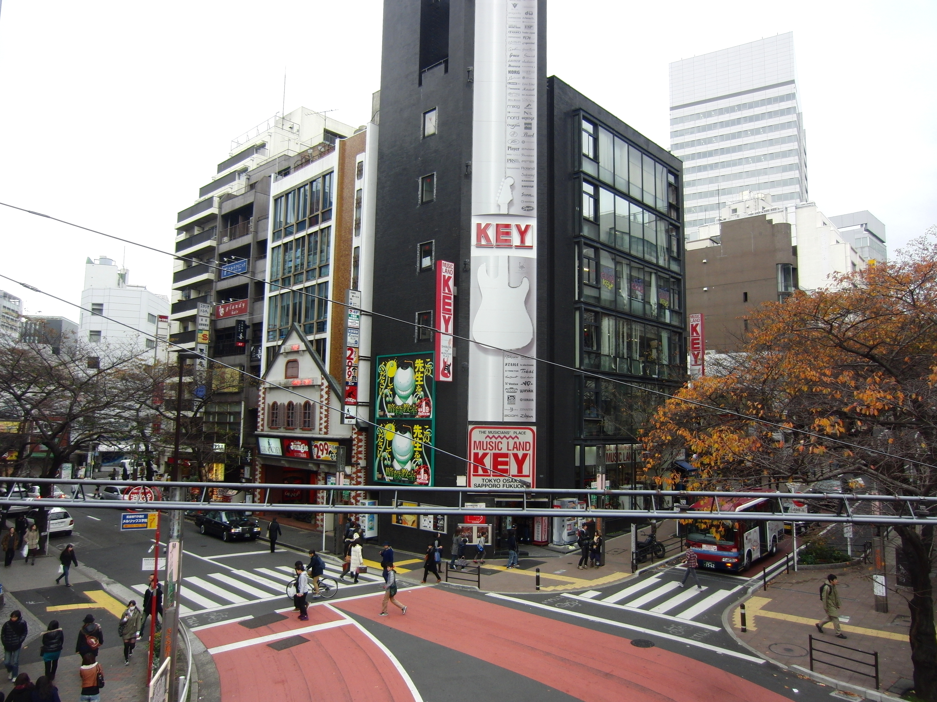 16 Sakuragaoka-cho, Shibuya, Tokyo, Japan.